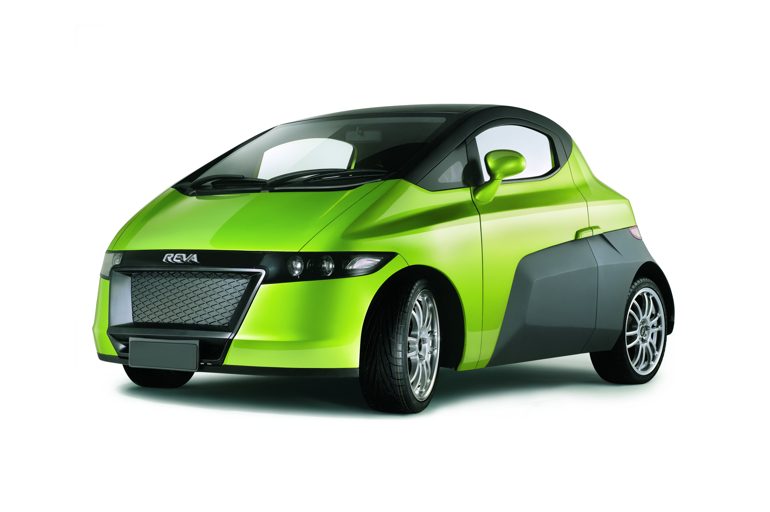 Reva NXG (Reva Next Generation) Electric car.